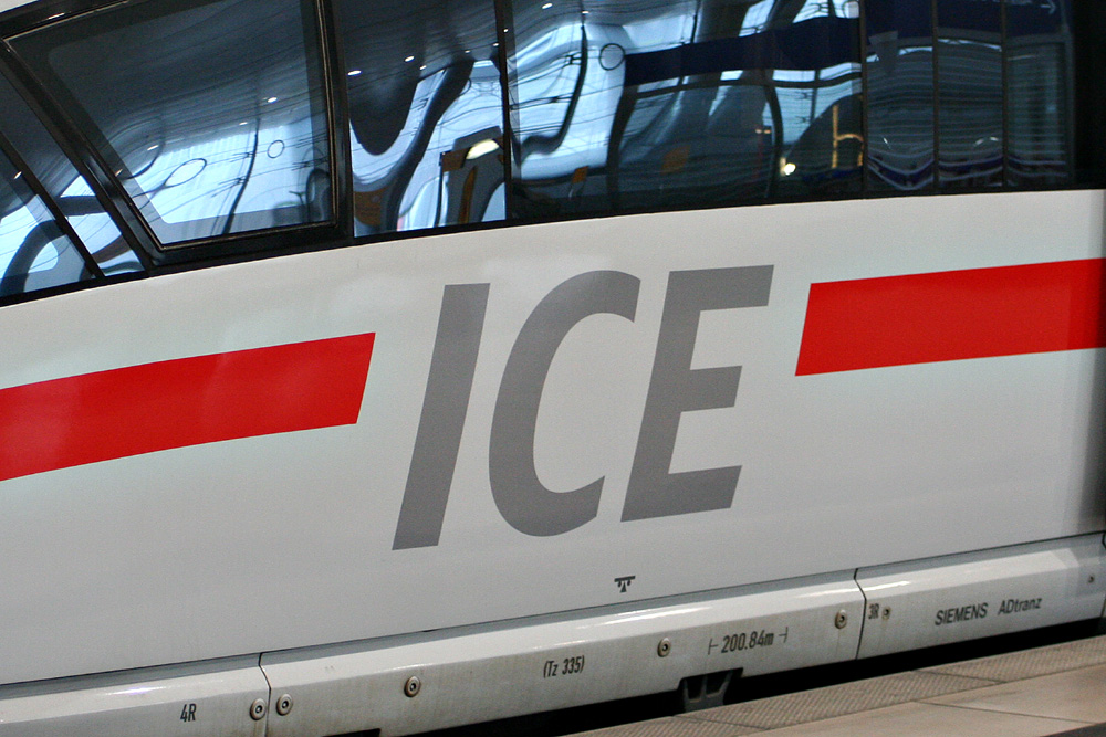 Current ICE logo on an ICE 3 (in DB's new typeface DB Head)